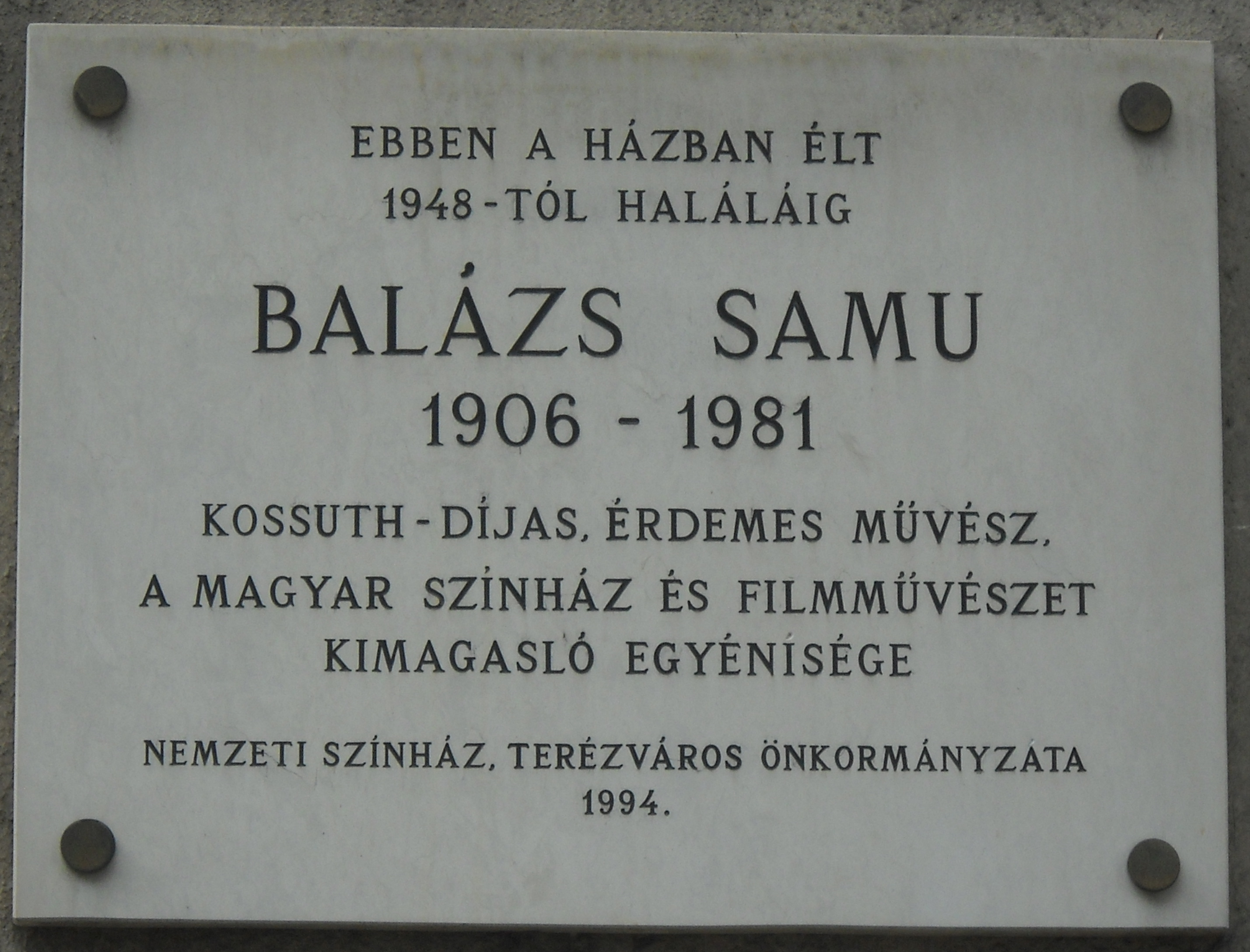 Commemorative plaque of Samu Balázs in Budapest District VI, Benczúr Street No 48